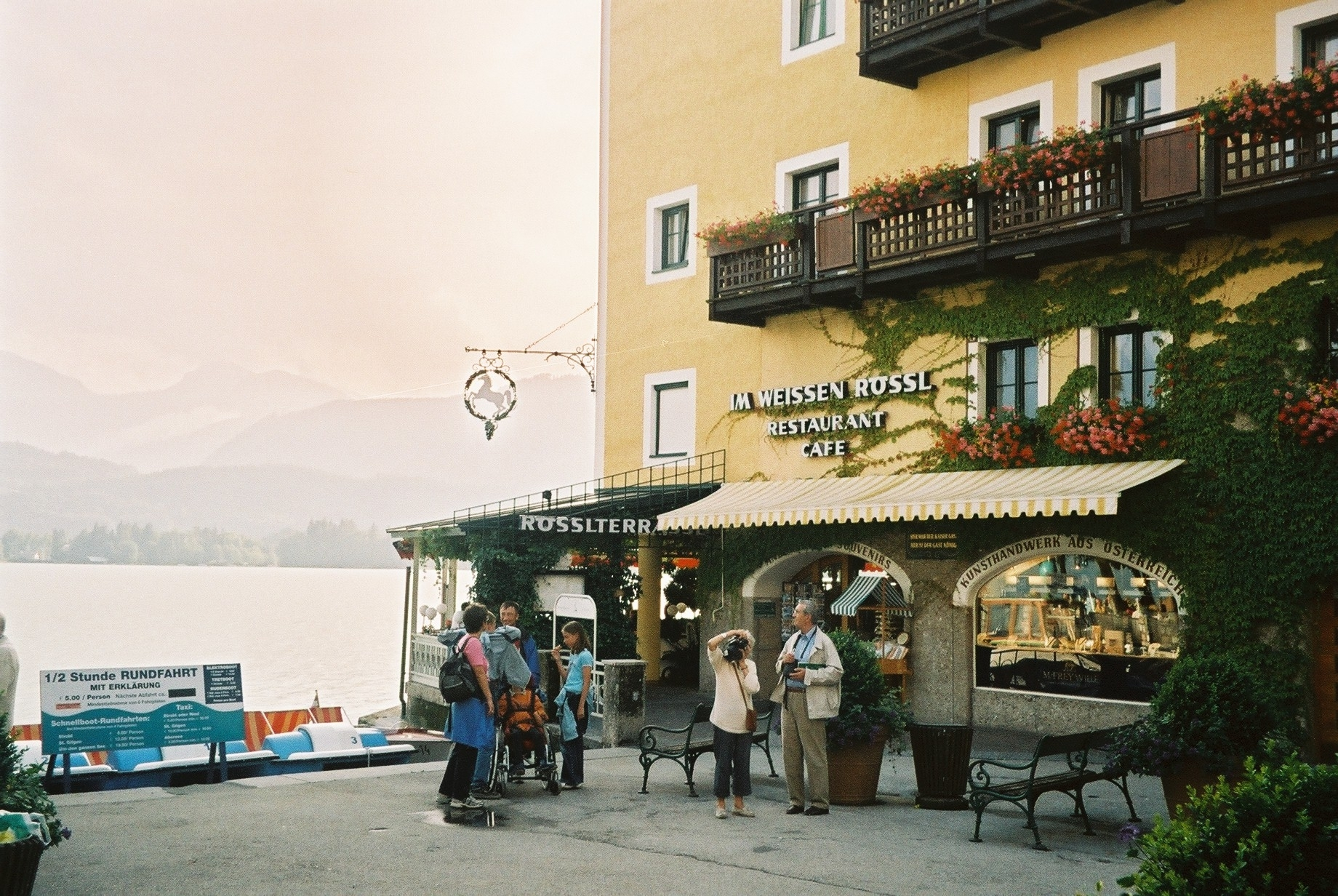 "Weißes Rössl" Hotel ("The White Horse Inn") at St. Wolfgang im Salzkammergut, Upper Austria, in 2004